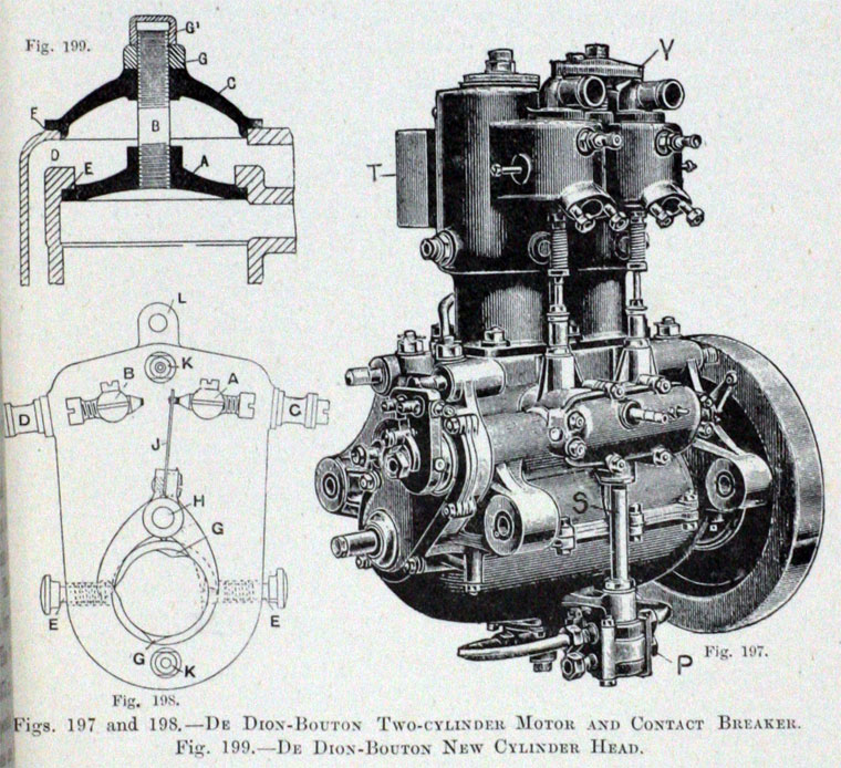 1906 De Dion-Bouton 10 HP twin cylinder engine.